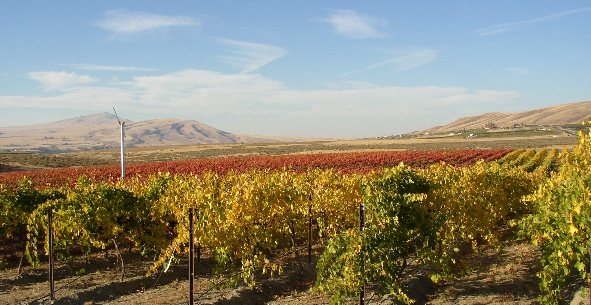 Photo of Red Mountain and Rattlesnake Mountain in the Red Mountain AVA in Washington, USA. Fall 2006. Own work - All rights released. Williamborg 02:09, 5 May 2007 (UTC)